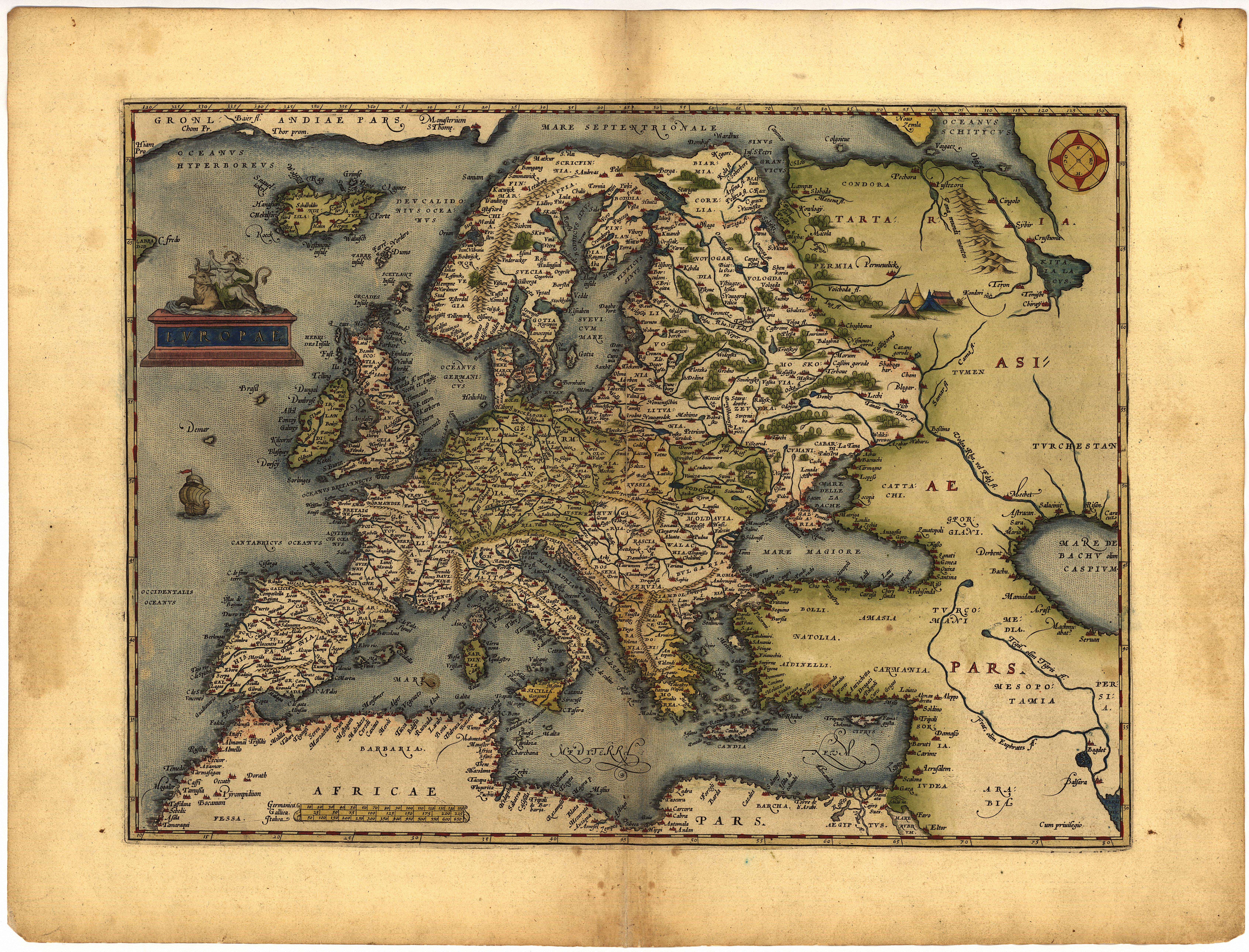 Map of Europe by Abraham Ortelius (Title:Europae) Name of map : Europae Cartographer : Ortelius (1527-1598) Map number : Ort 4; (Koeman Atlantes Neerlandici III):5 Copy from edition: 1571 Latin; Page signature: 5 Estimated number of copies printed: 3025 Estimated number of loose copies in circulation: 165 Area displayed : Europe, Iceland, part of Greenland, North Africa, Western part of Middle East; Plate size : 347 x 469 mm; Paper size : 385 x 548 mm; Margins, left : 40 mm, right: 39 mm; upper : 35 mm, lower: 6 mm; Paper thickness and quality: very heavy and strong; Paper color : off white; Age of map color: later coloring, expertly executed